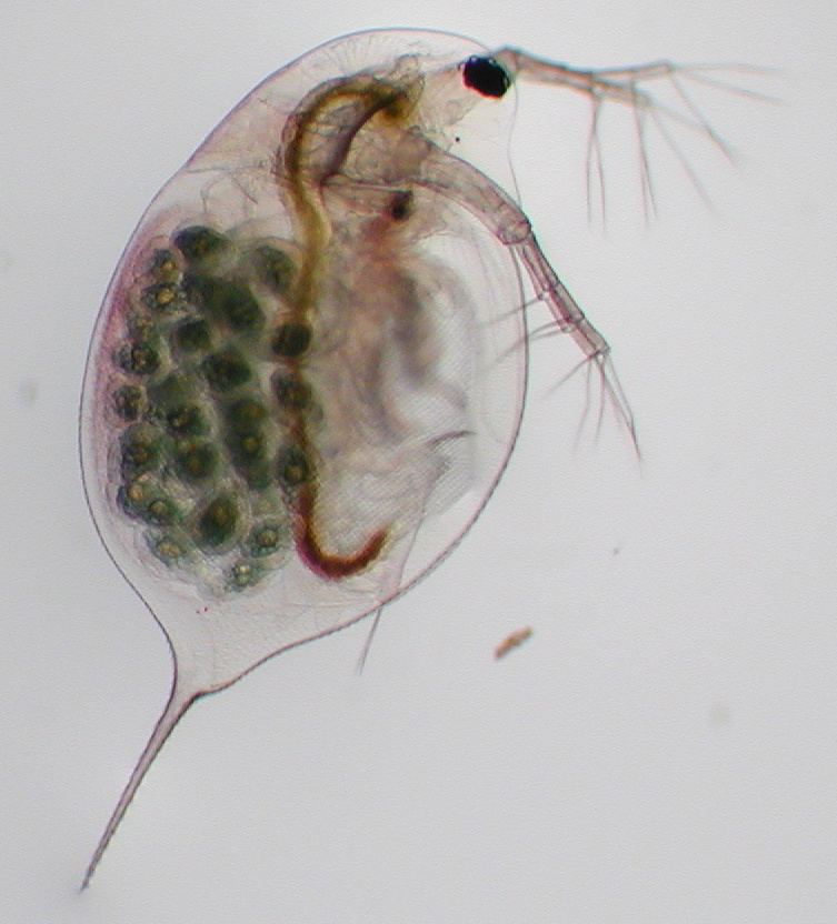 Female Daphnia longispina with a clutch of asexual (parthenogenetic) eggs. The animal is about 2.2 mm long. Picture from wild caught female from rock pol in south-Western Finland. Picture by Dieter Ebert.